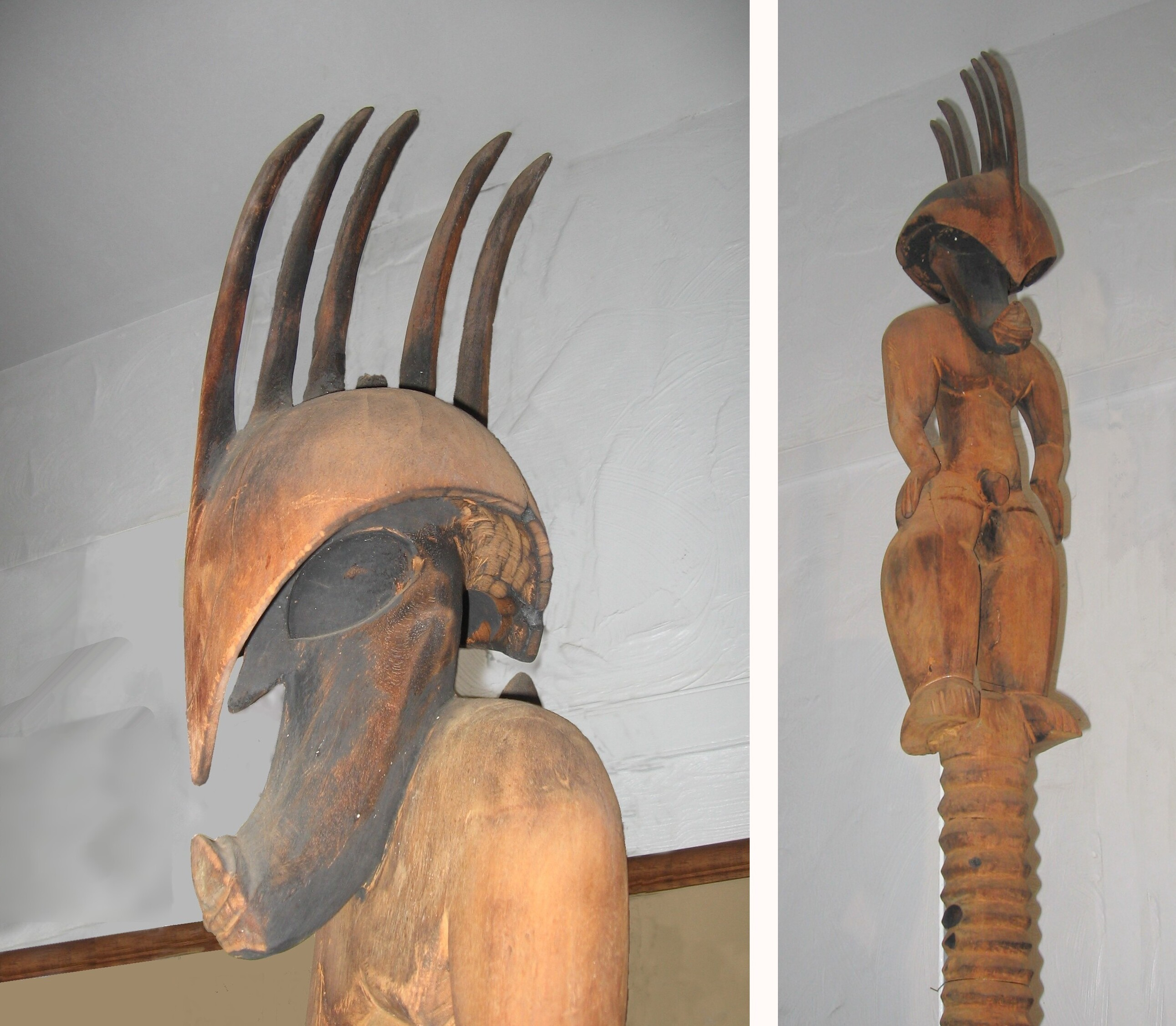 A collage of a wooden statue of the Ancient Hawaiian demi-god Kampaua'a. From the Bailey House Museum